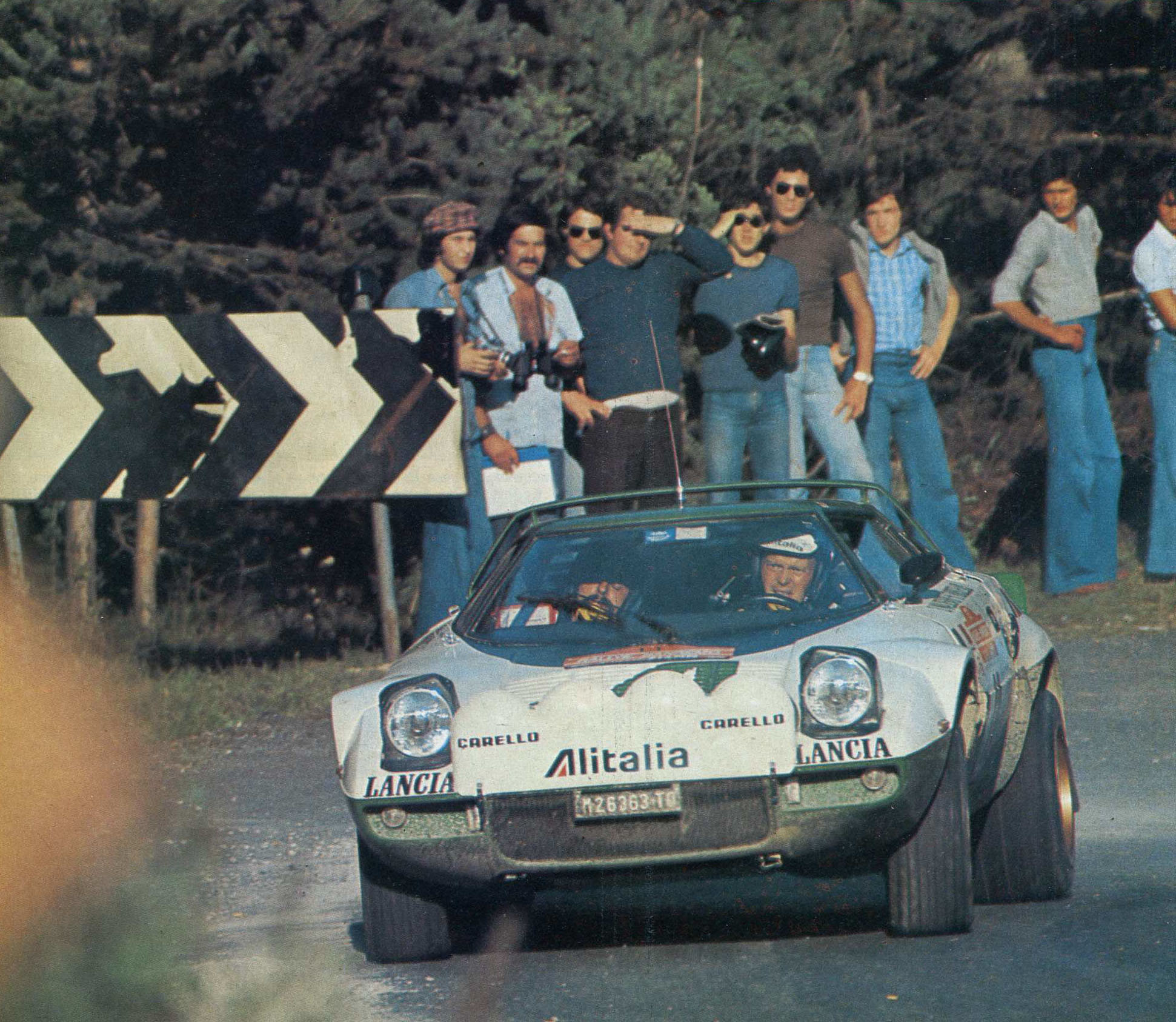 Björn Waldegård and co-driver Hans Thorszelius in countersteer on a Lancia Stratos HF (Group 4) sponsored Alitalia at the 1975 Rallye Sanremo.